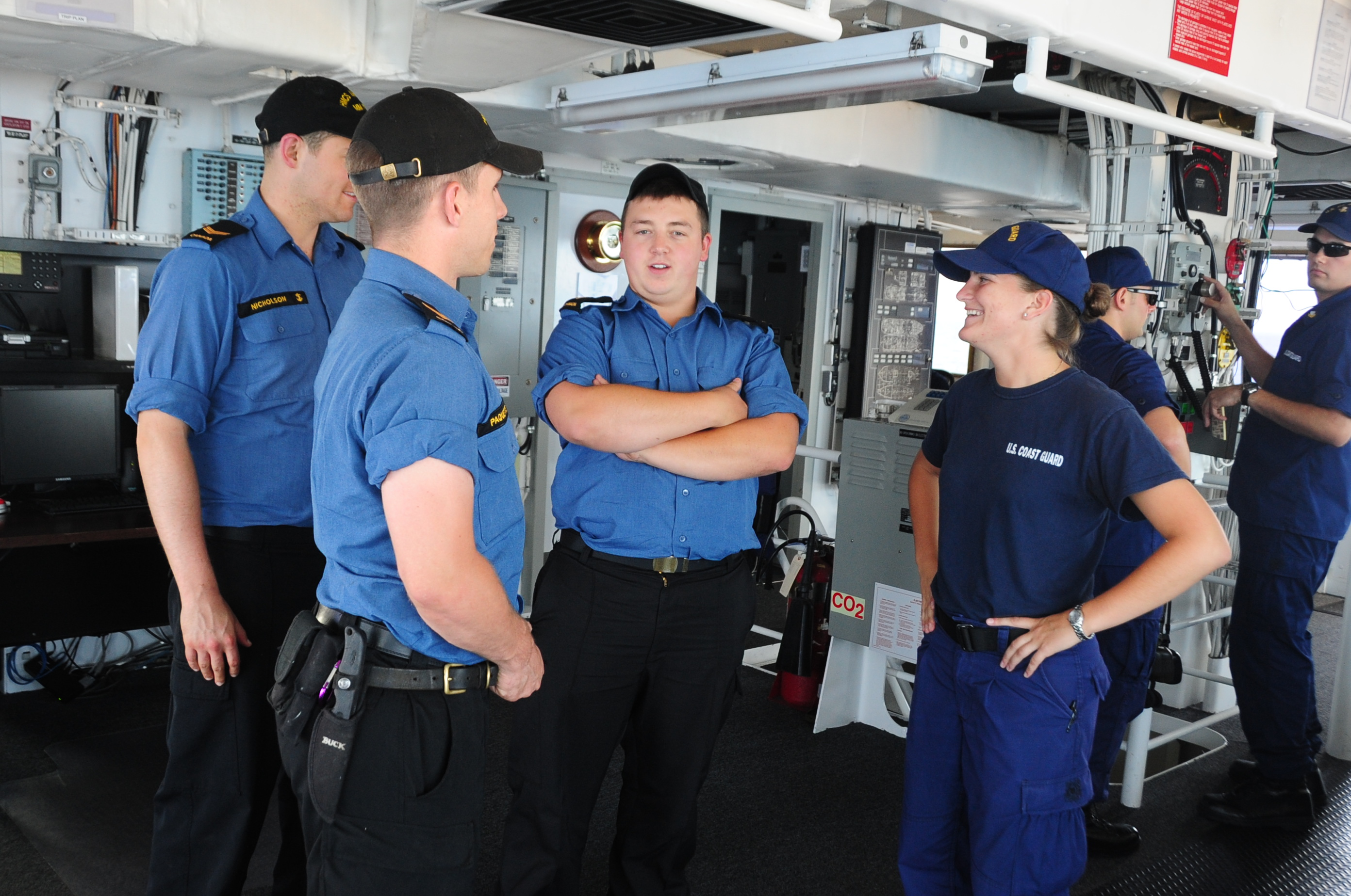 US and Canadian Navy sailors, on the bridge. This Image was released by the United States Coast Guard with the ID 120814-G-NB914-035 (next). This tag does not indicate the copyright status of the attached work. A normal copyright tag is still required. See Commons:Licensing for more information.